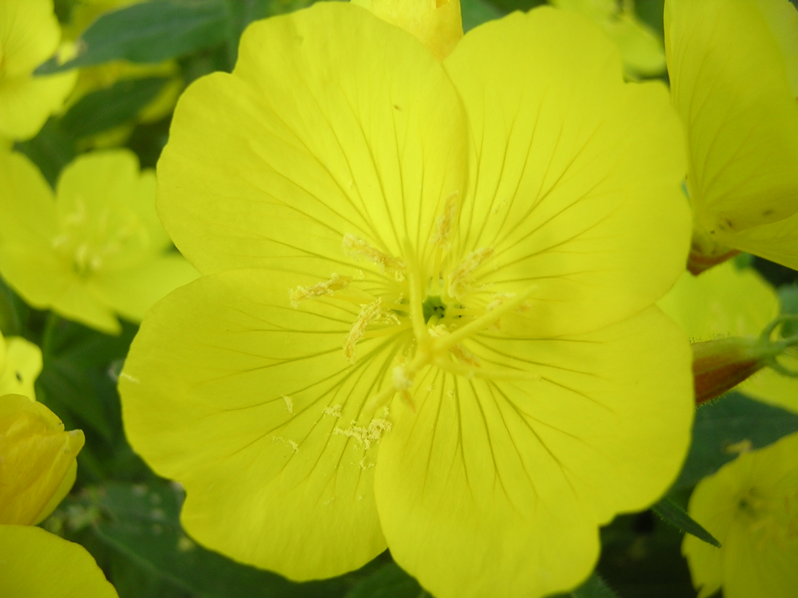 Oenothera biennis, flower. Russia, Ivanovo region.